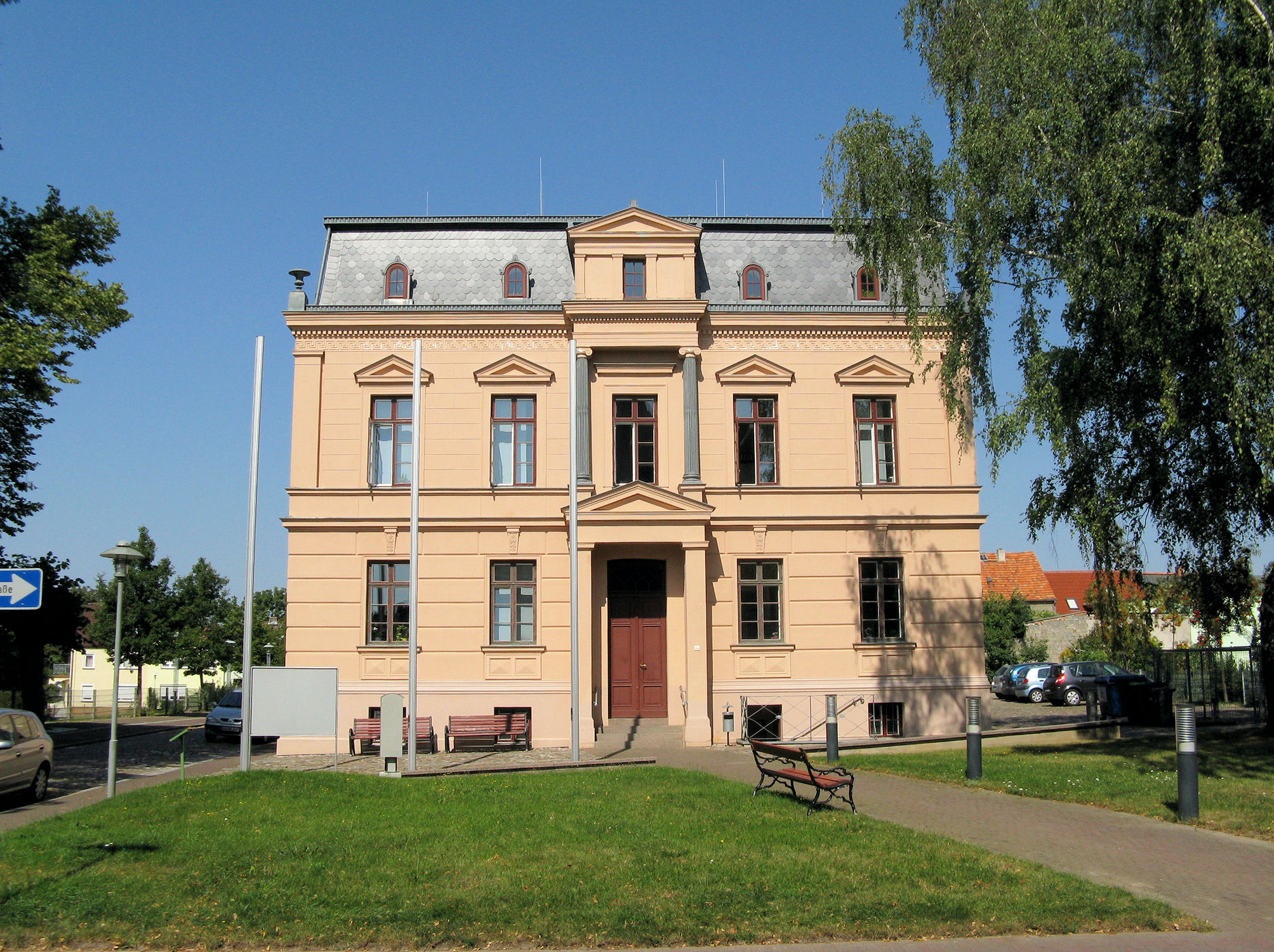 Amt in Gnoien, disctrict Güstrow, Mecklenburg-Vorpommern, Germany